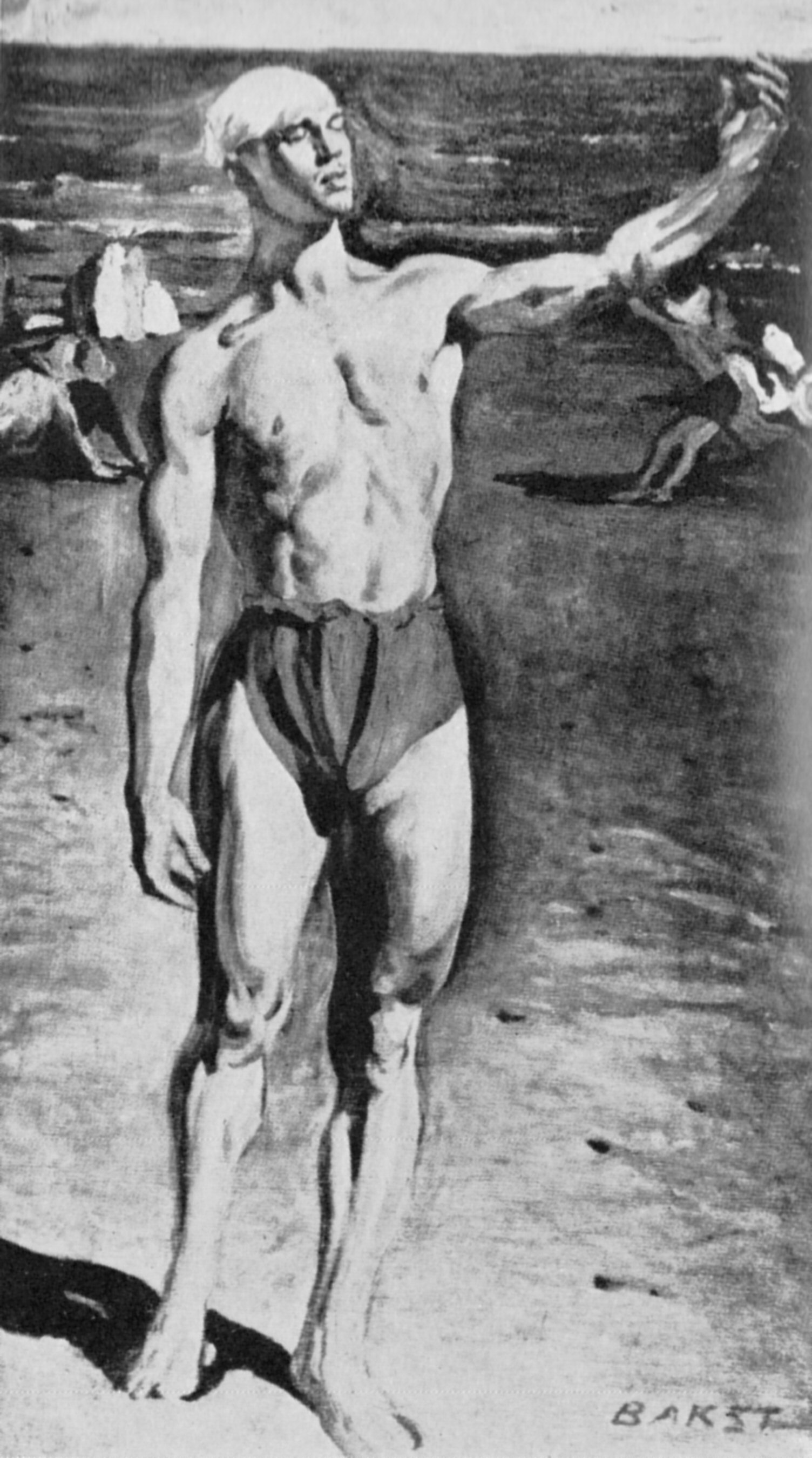 Nijinsky on the Lido by Leon Bakst